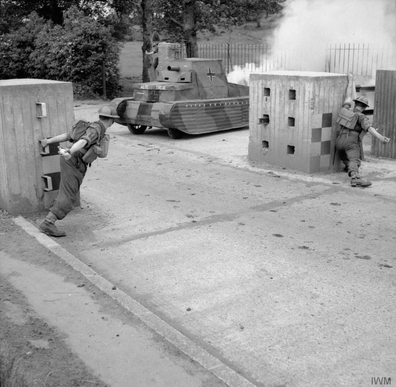 Men of the 6th Royal Berkshires (part of the 61st Infantry Division) defend a road barricade against a mock-up 'enemy tank' during realistic battle training at Coleraine in Northern Ireland, 16 June 1941.